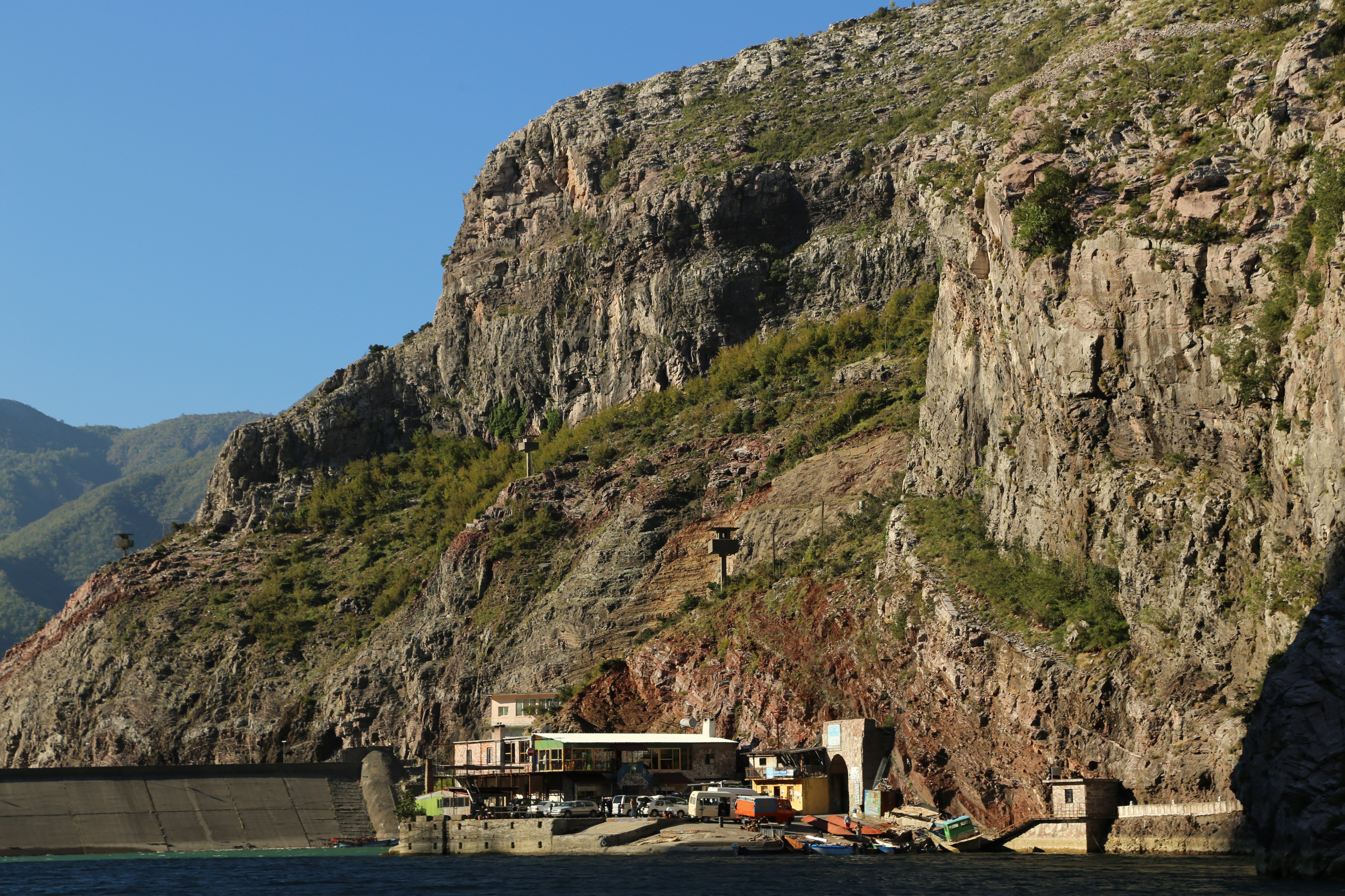 Lake Komani landing place